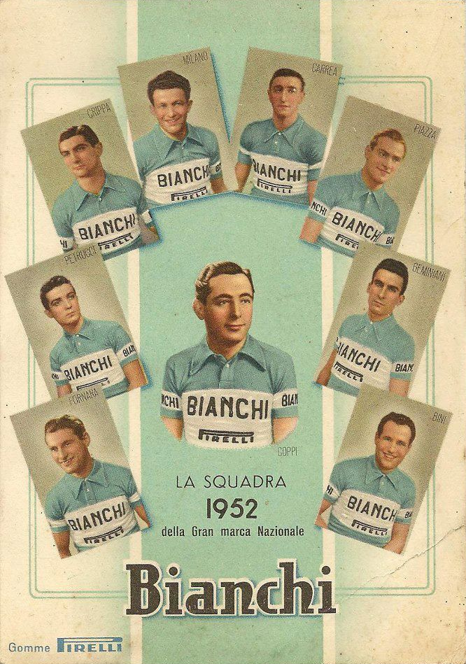 Bianchi cycling team 1952